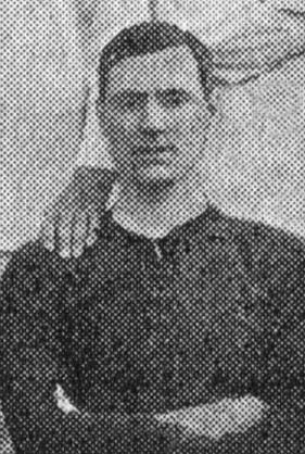 James Riley while with Brentford FC 1909/10